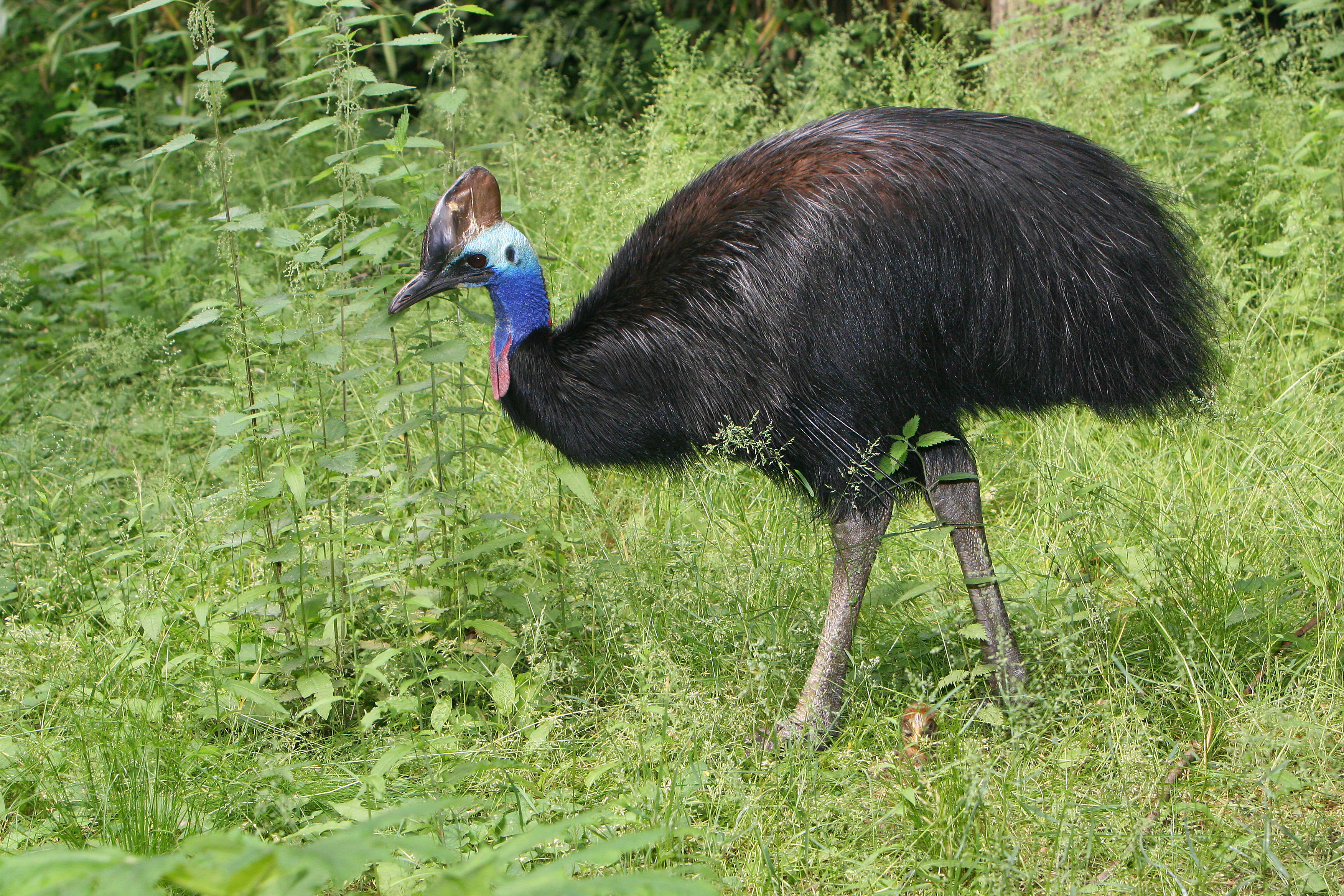 Southern Cassowary at Artis Zoo, Netherlands.